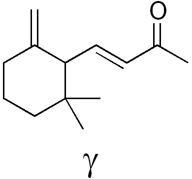 chemical structure of gamma-ionone